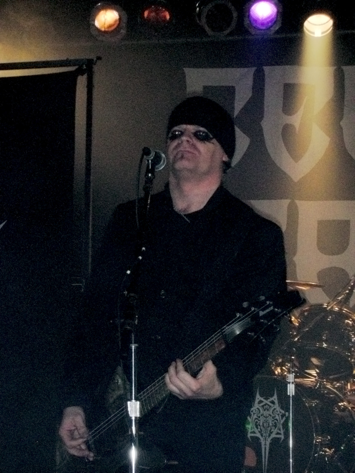 Tom G. Warrior of Celttic Frost